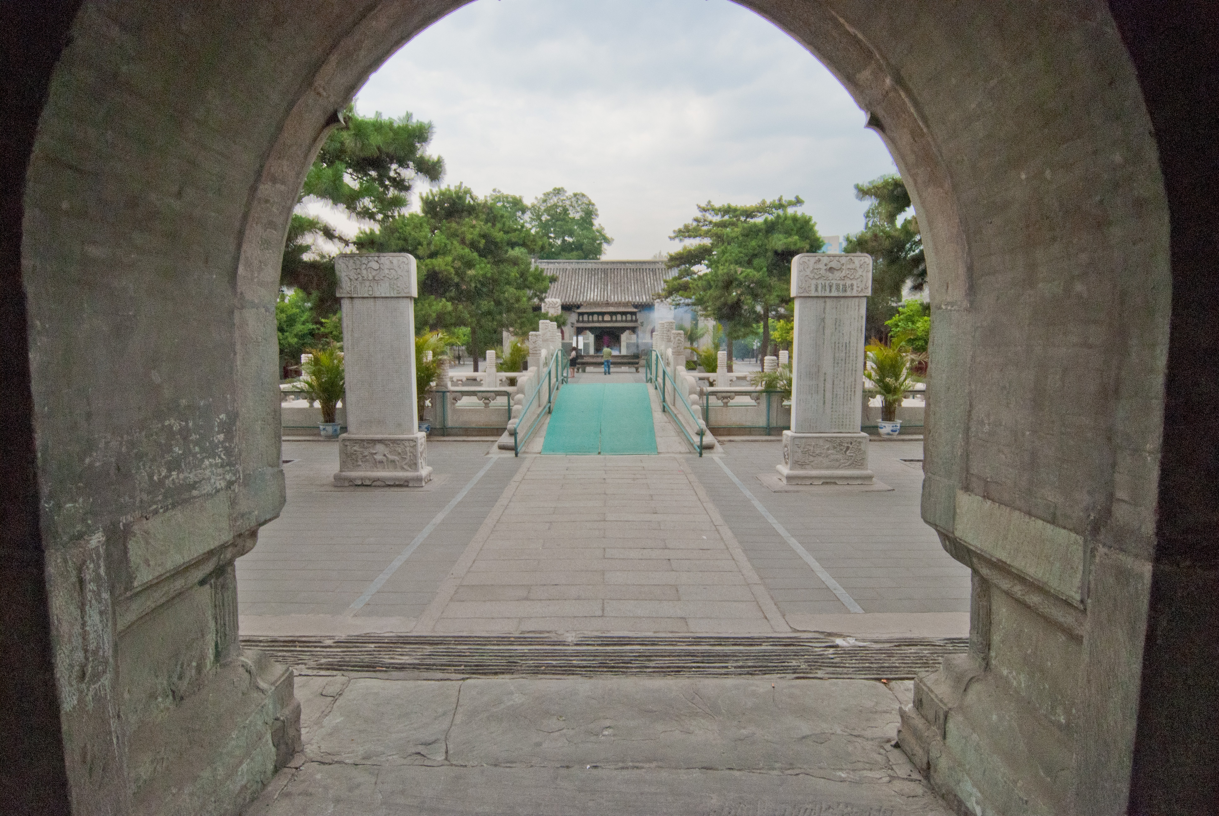 White Cloud Temple